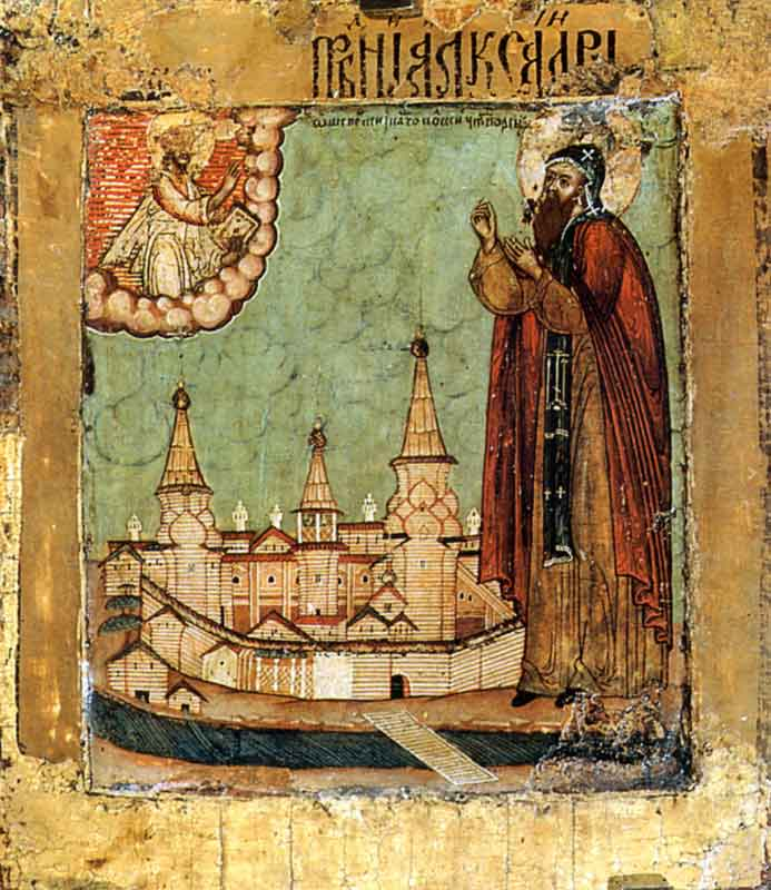 Icon of St. Alexander of Oshevensk, Kargopol (Russia).